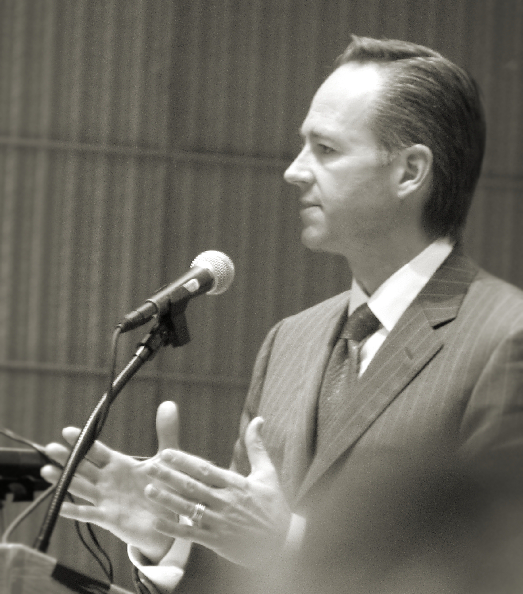 Photo of State Representative and Speaker Pro-tem Craig Eiland (D-Galveston) speaking before the University of Texas System Board of Regents in support of keeping UTMB's clinical operations in Galveston and restoring John Sealy Hospital to its pre-Hurricane Ike state.